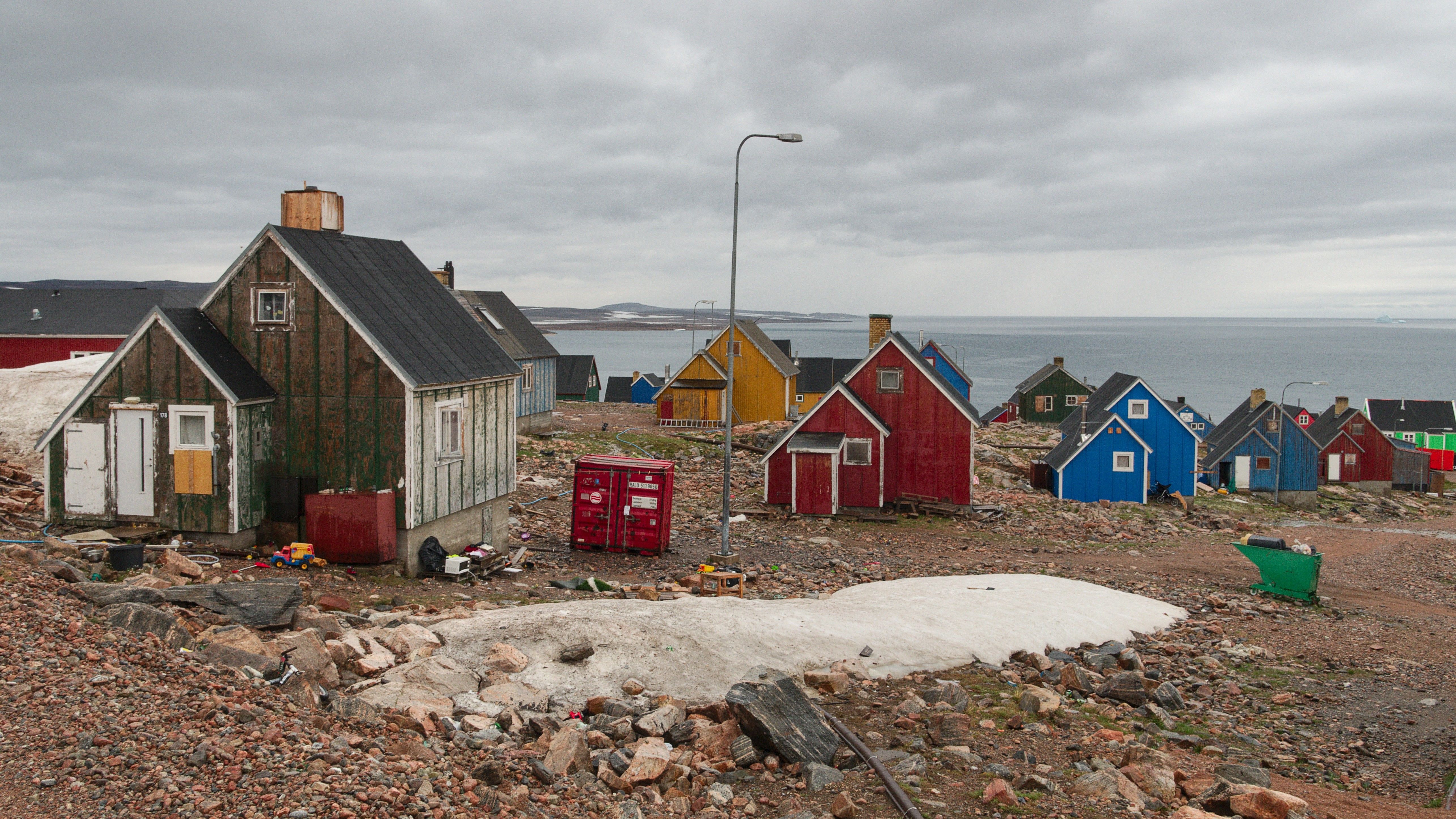 Ittoqqortoormiit, Greenland.